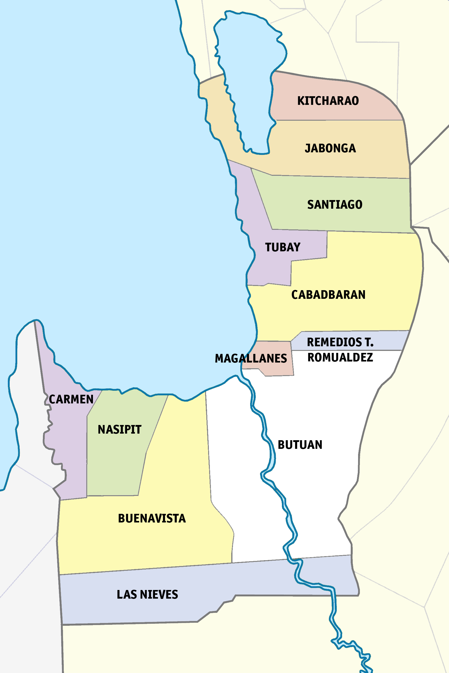 Political map of Agusan del Norte